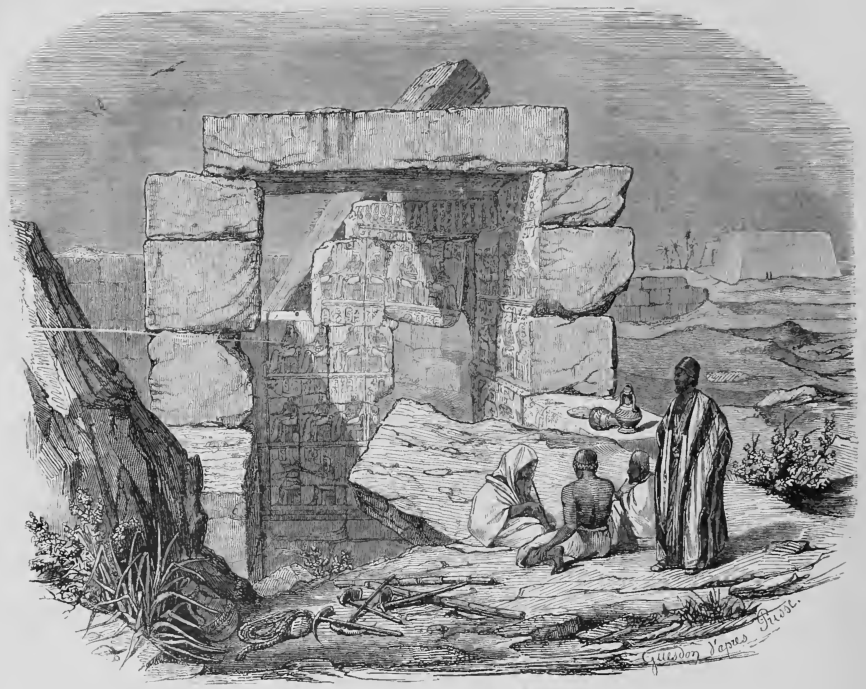 Drawing of the Karnak Canon, aka Karnak King list